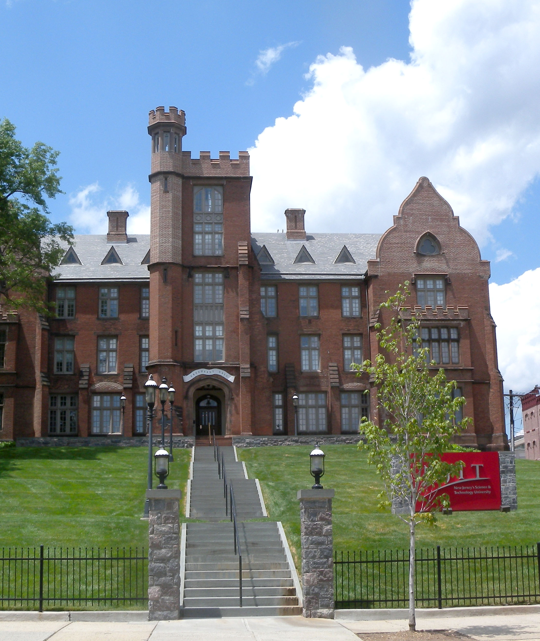 Looking west and up from Bleecker Street at Eberhardt Hall, New Jersey Institute of Technology — in Newark, New Jersey. The brick Gothic Revival style building was completed in 1857. "Seen on a mostly sunny afternoon in 2009."